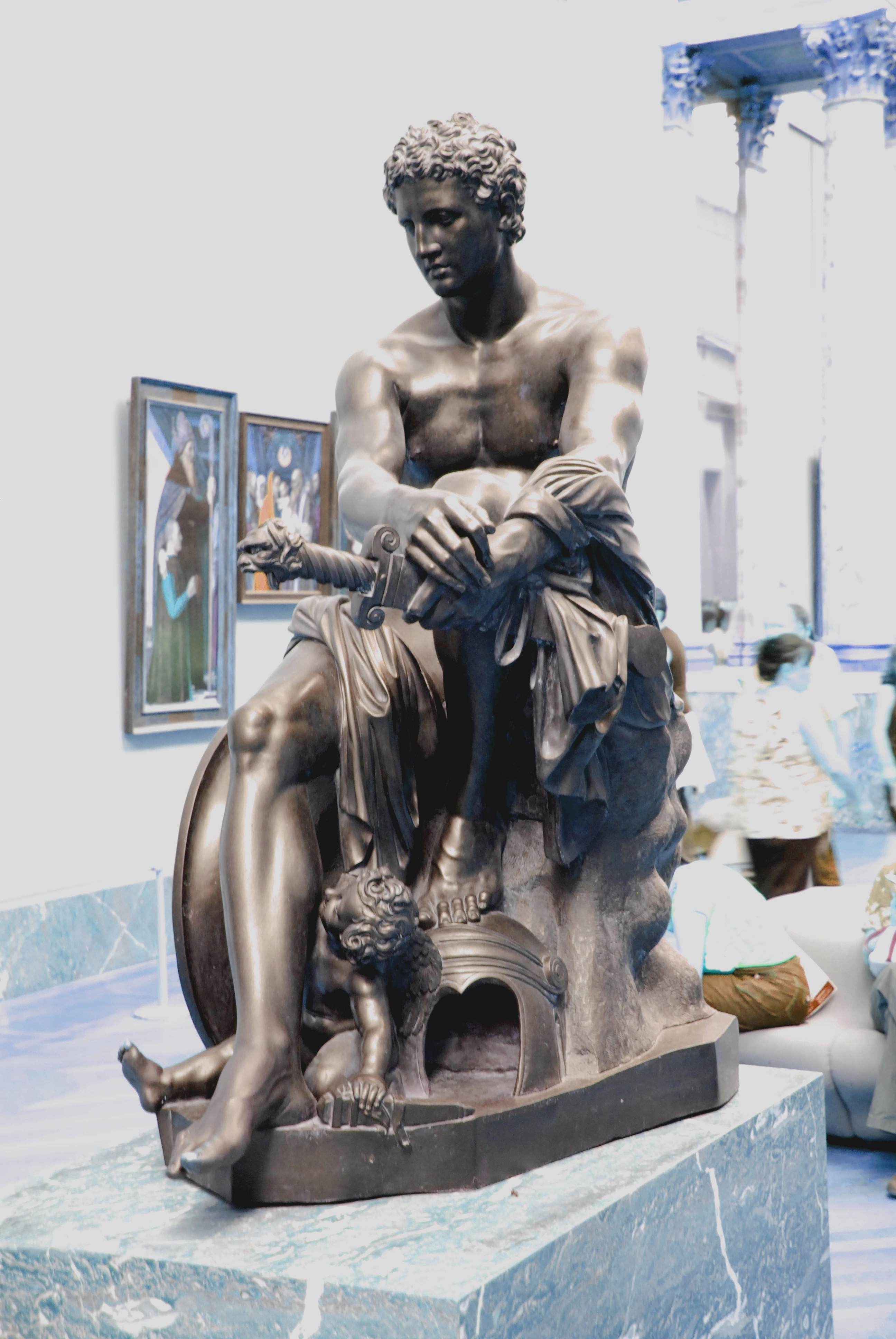 Seated Mars, a copy of an ancient statue of Ludovisi Ares by Luigi Valadier (1726-1785) in 1780, bronze, in Louvre from 1935.